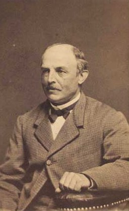 Peter Ludvig Behrend (1825-1883), Danish judge and politician